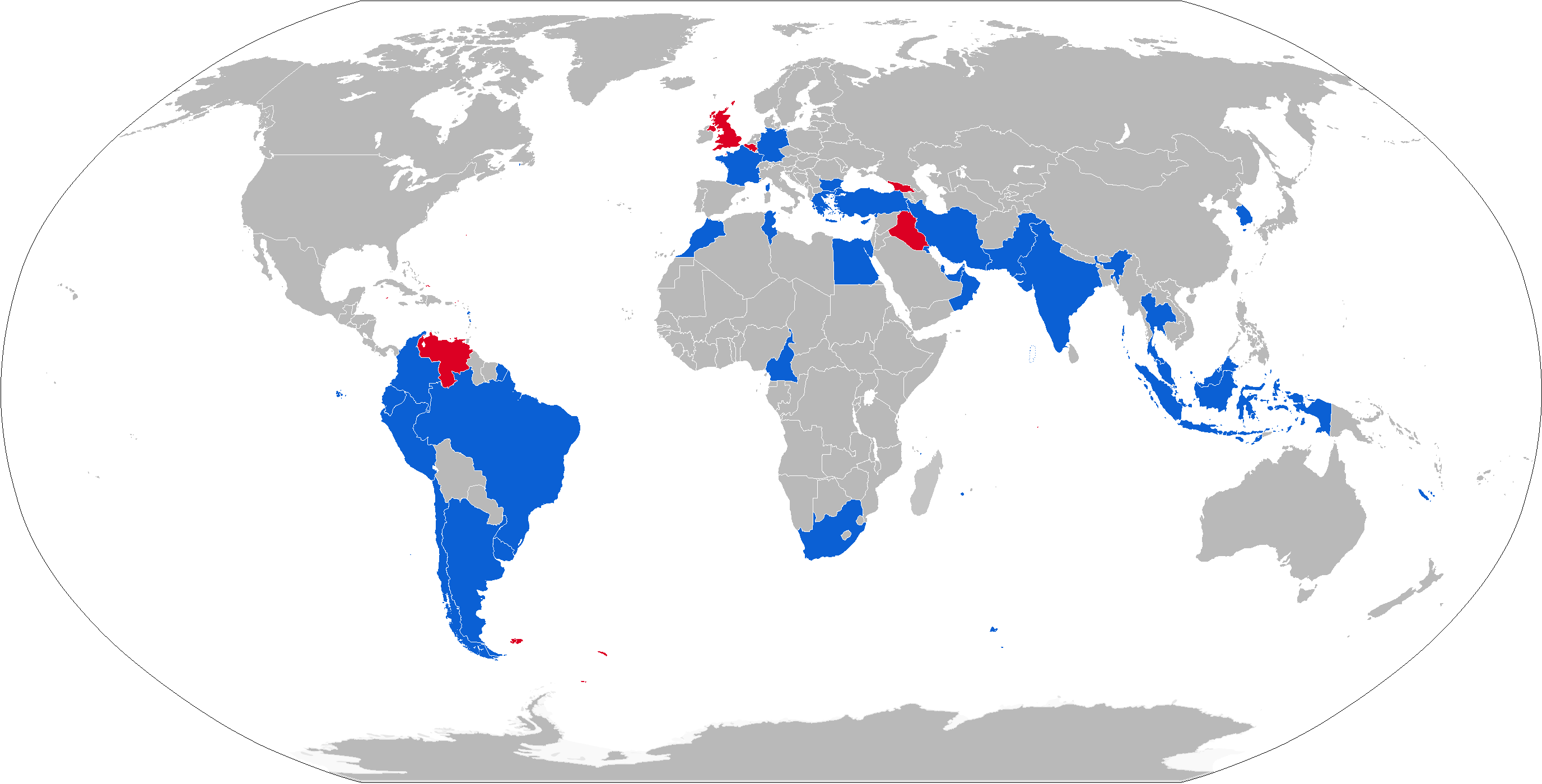 Map with Exocet operators in blue and former operators in red